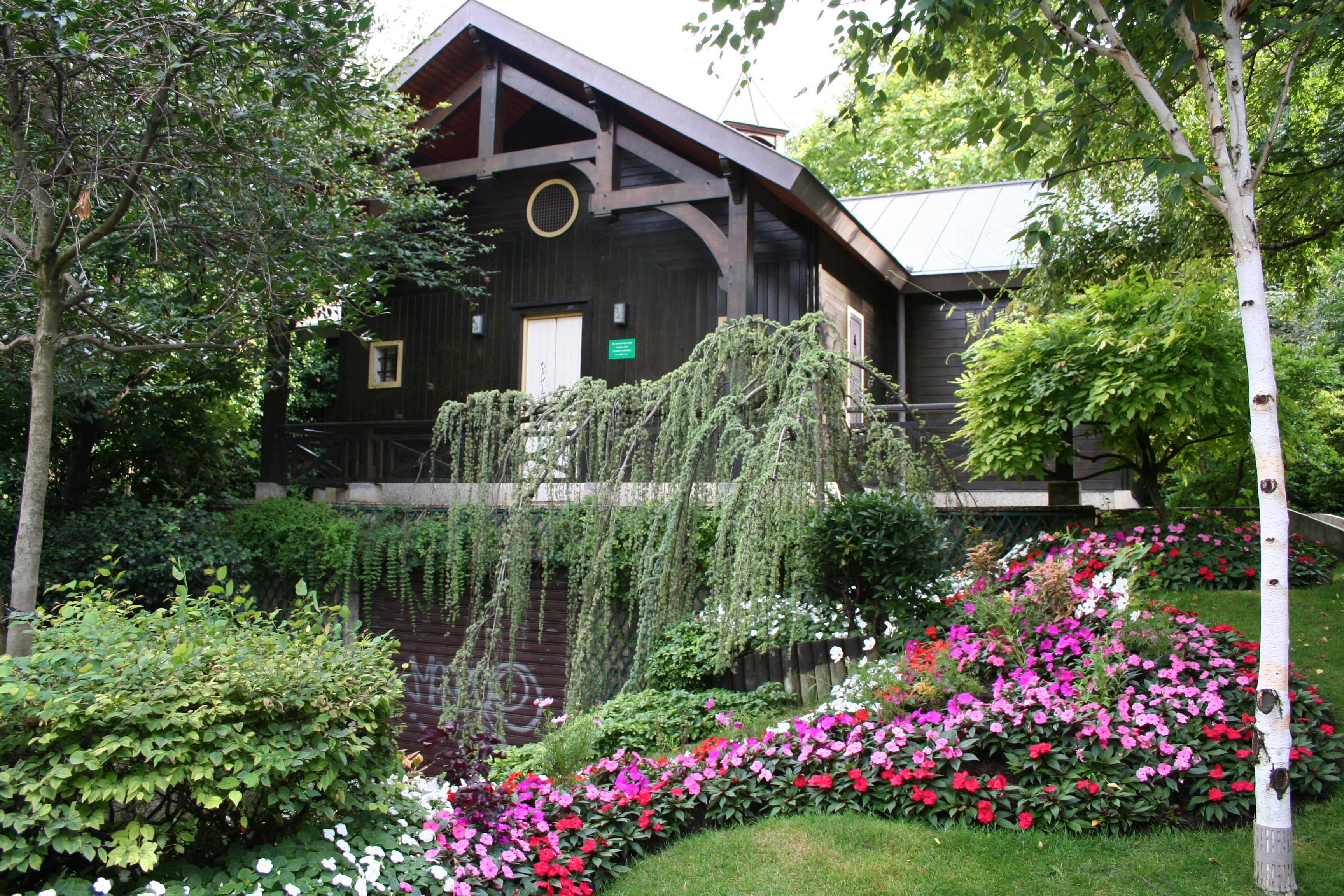 Parc Monceau (Paris, France)